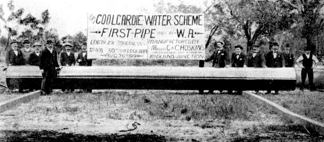 First pipe manufactured by C & G Hoskins for the Coolgardie Water Supply Scheme. The man standing in front of the pipe is Charles Henry Hoskins.